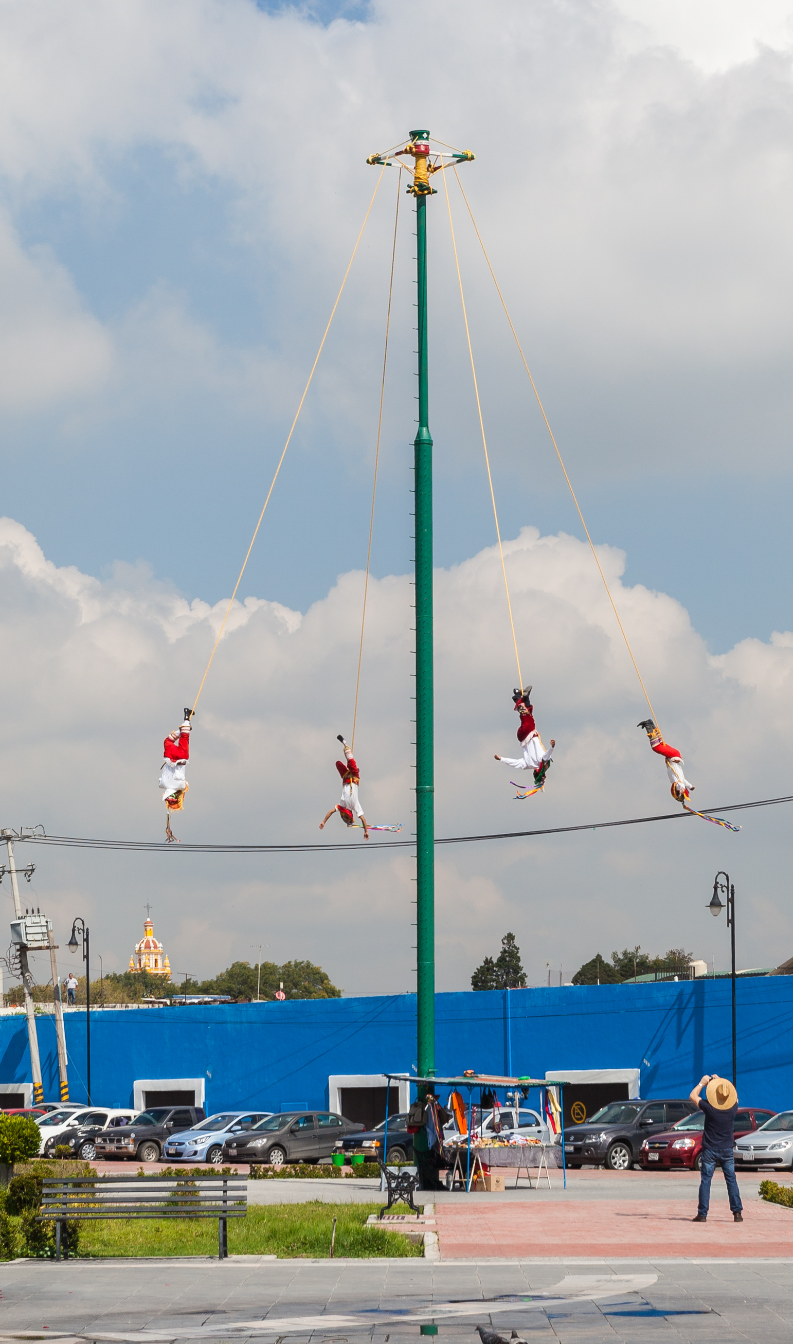 Ritual ceremony of the Flyers, Cholula, Puebla, Mexico